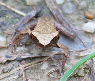 Xenophrys minor in Serzhong, Mongar, Bhutan. Photo by Karma Wangdi, published in Wangyal, J. T. 2013. New records of reptiles and amphibians from Bhutan. Journal of Threatened Taxa 5:4774–4783.